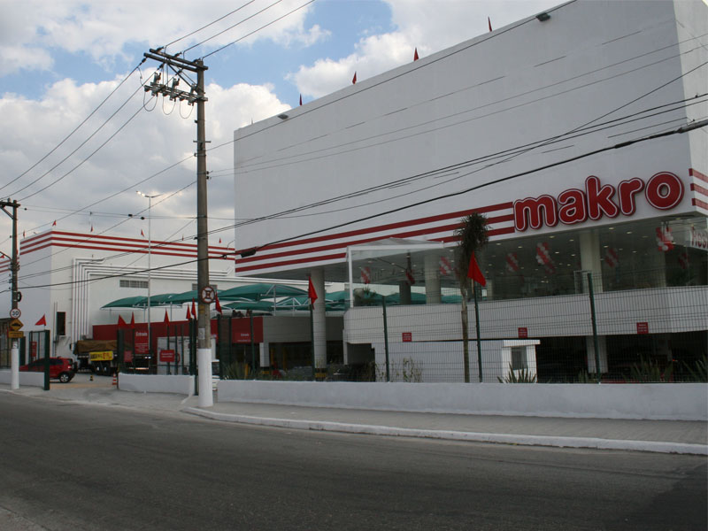 Makro Guarapiranga